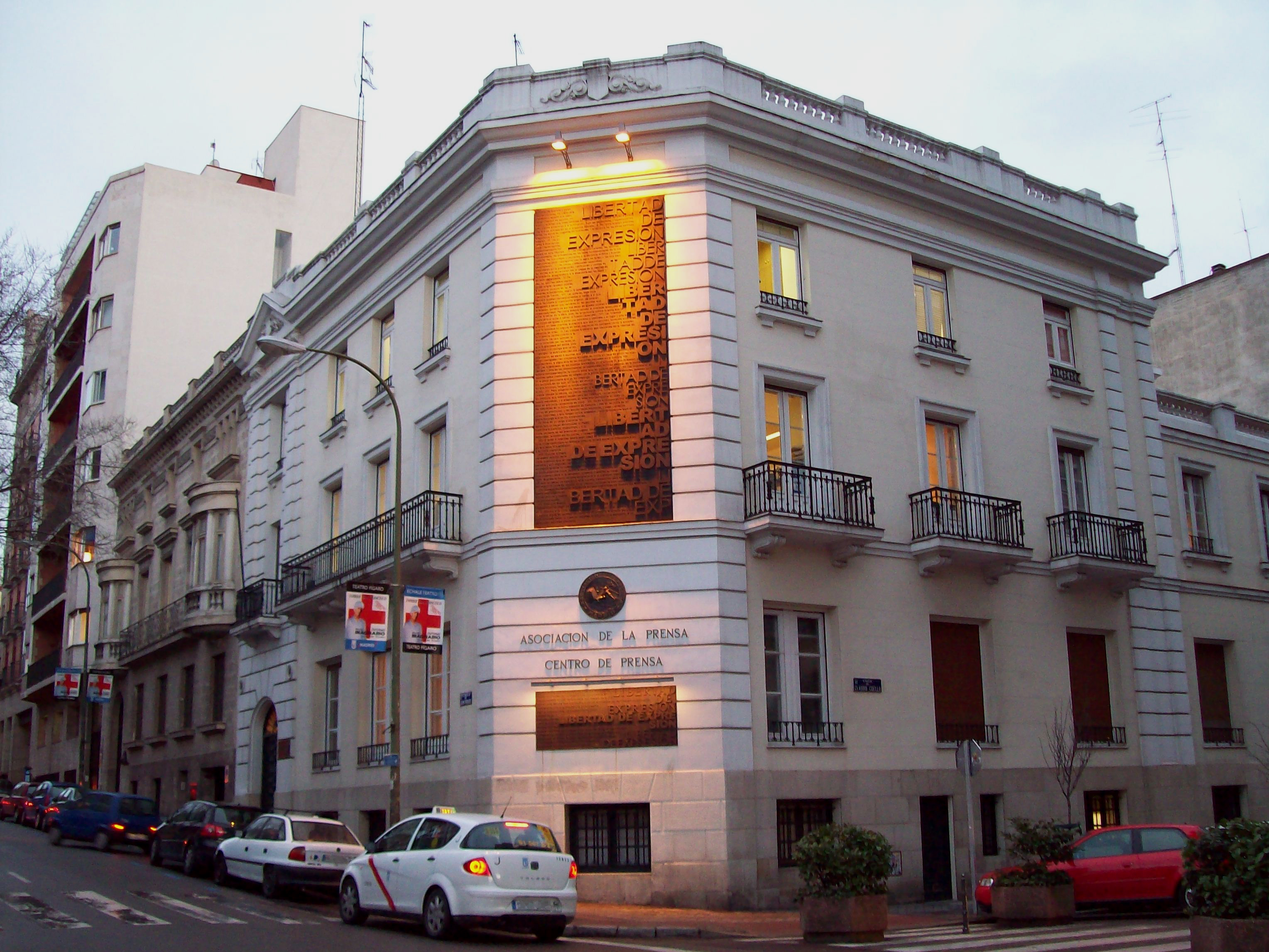 Home of Madrid's Press Association (Spain) since 1983, at 6 Calle de Juan Bravo (street, Salamanca district). Building was originally built in the 1920's.